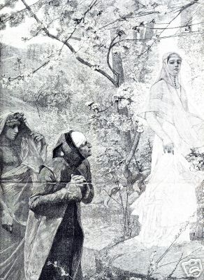 Lithograph of the painting "Le Dante rencontre Matilda" (Dante meets Matelda), by Albert Maignan, exhibited at the Paris Salon of 1881. (Salon, 1881 ) Image taken from an online auction. Compare information from the French Ministry of Culture. By its date